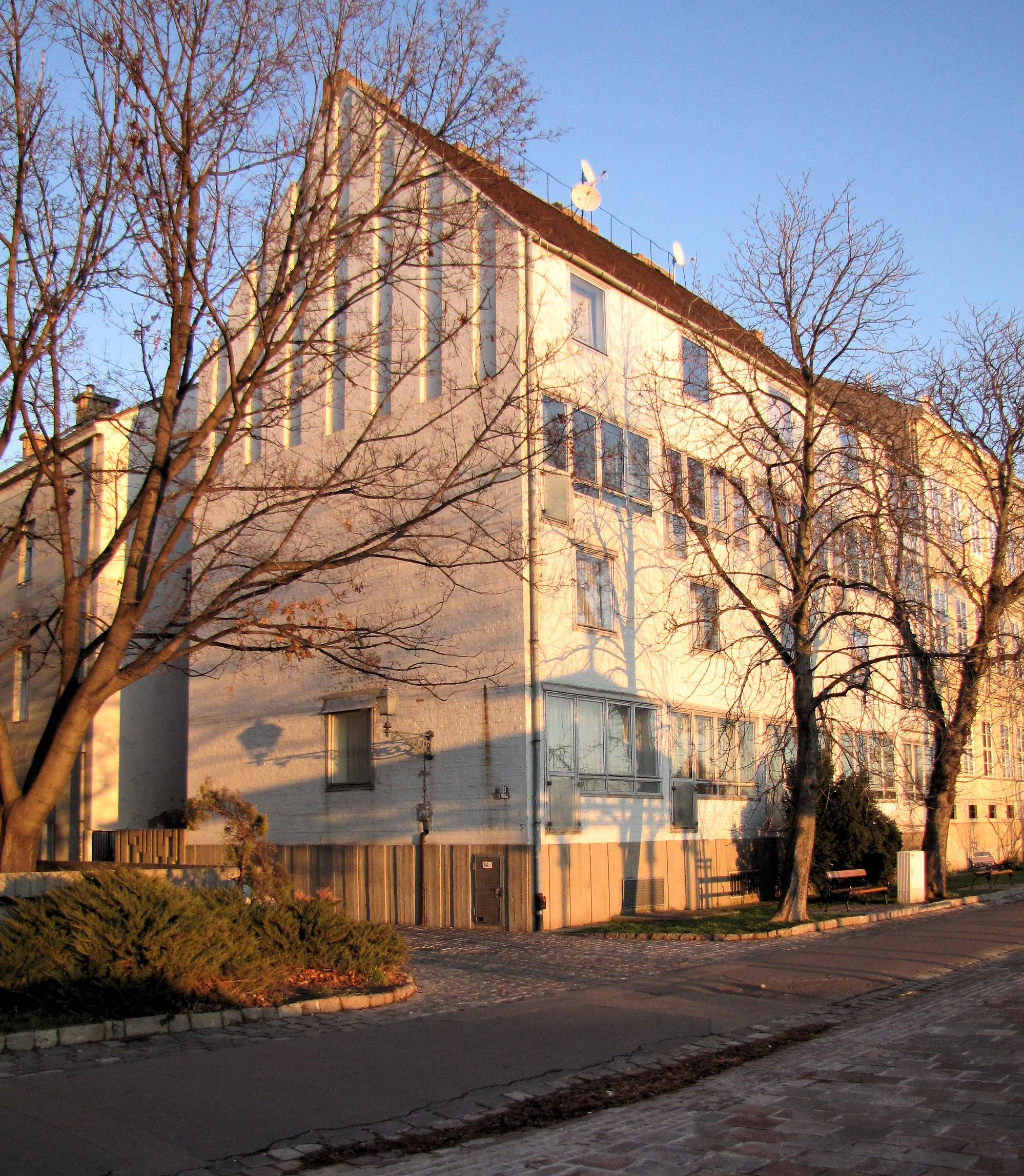 Building in Buda Castle. Architect: György Jánossy, 1961-63.